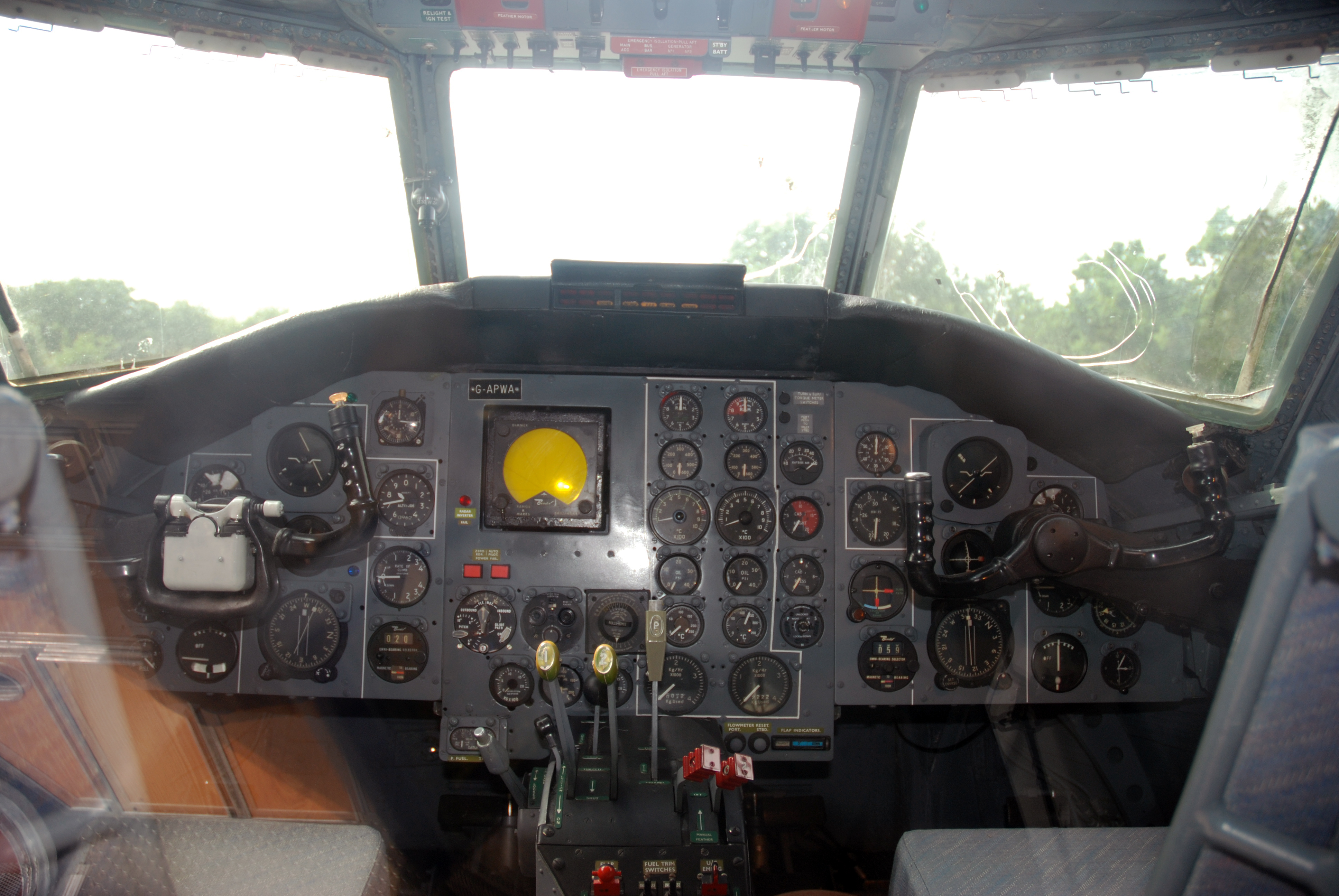 Museum of Berkshire Aviation,June 2008